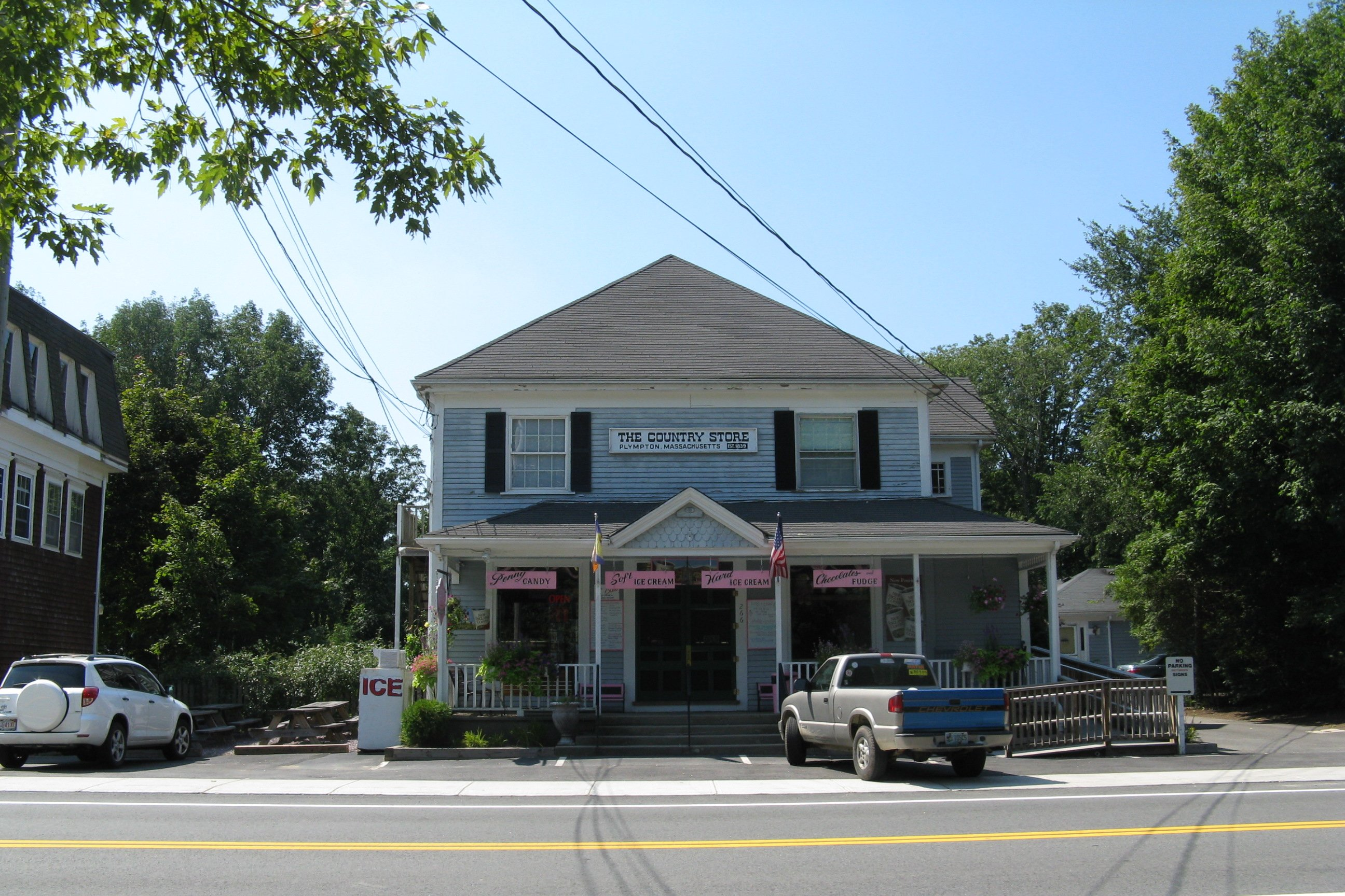 The Country Store, Plympton Massachusetts